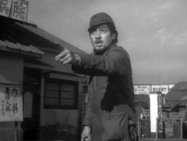 Rentarō Mikuni in Honjitsu kyūshin directed by Minoru Shibuya - 1952